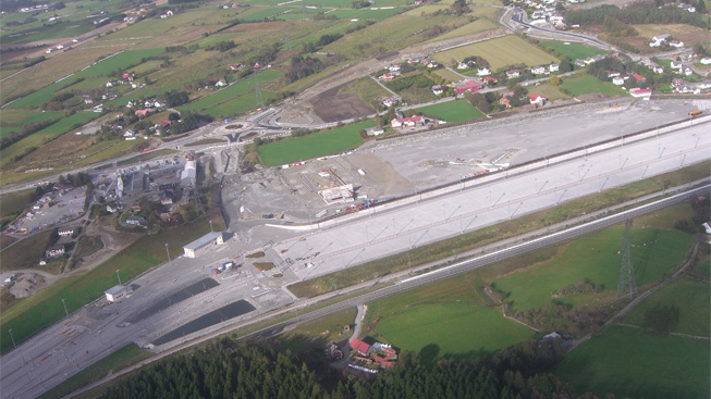 Ganddal godsterminal (freight tran station) under construction (Oct. 2007) in Sandnes, Norway